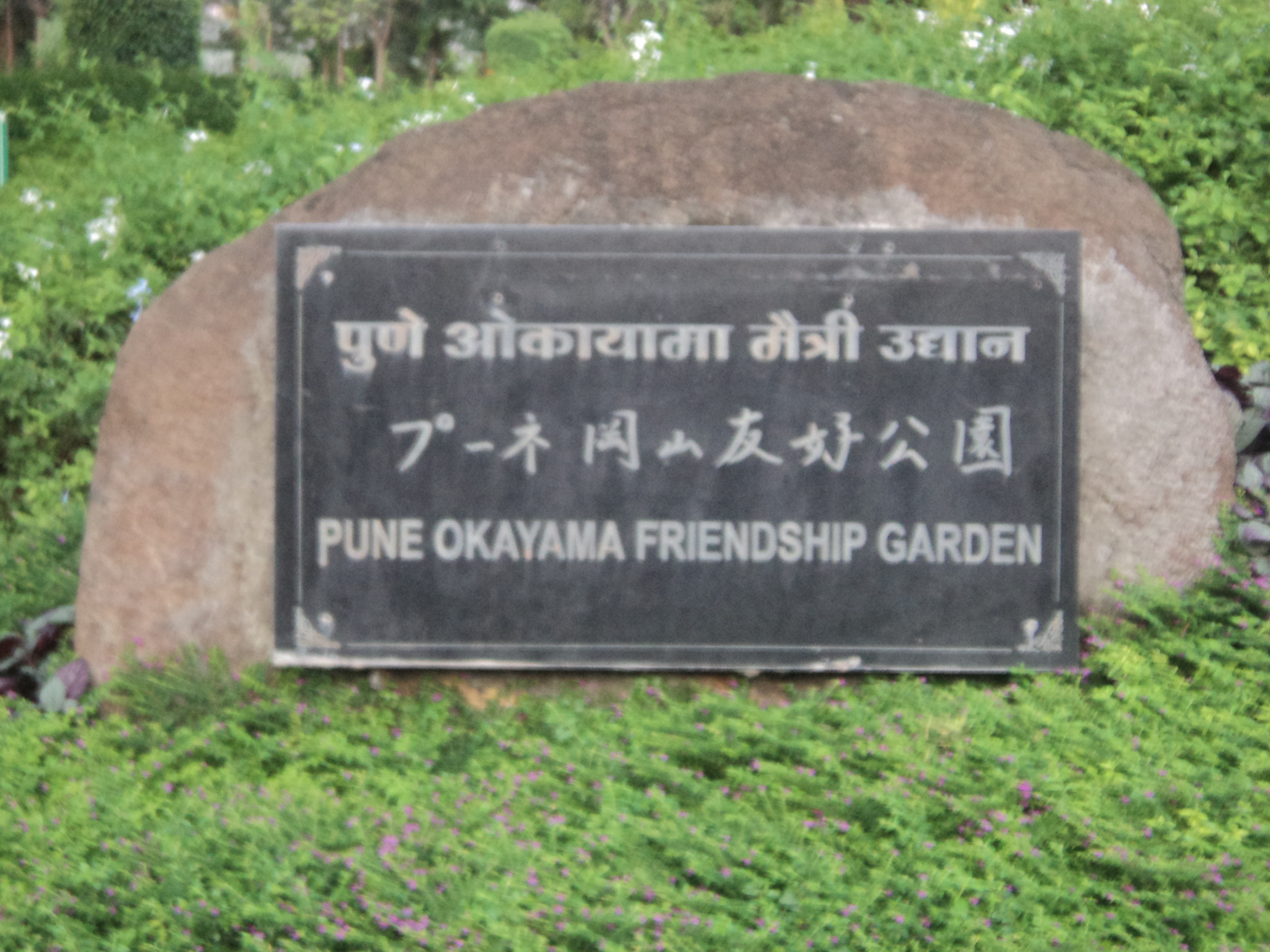 Japanese garden,Pune,India